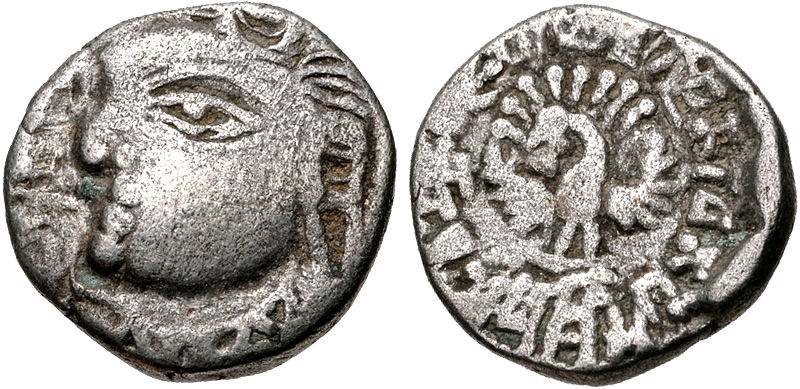 Maukharis of Kanauj. Isanavarman. Circa AD 535-553. Diademed bust left; crescent on diadem / Peacock facing with head left.